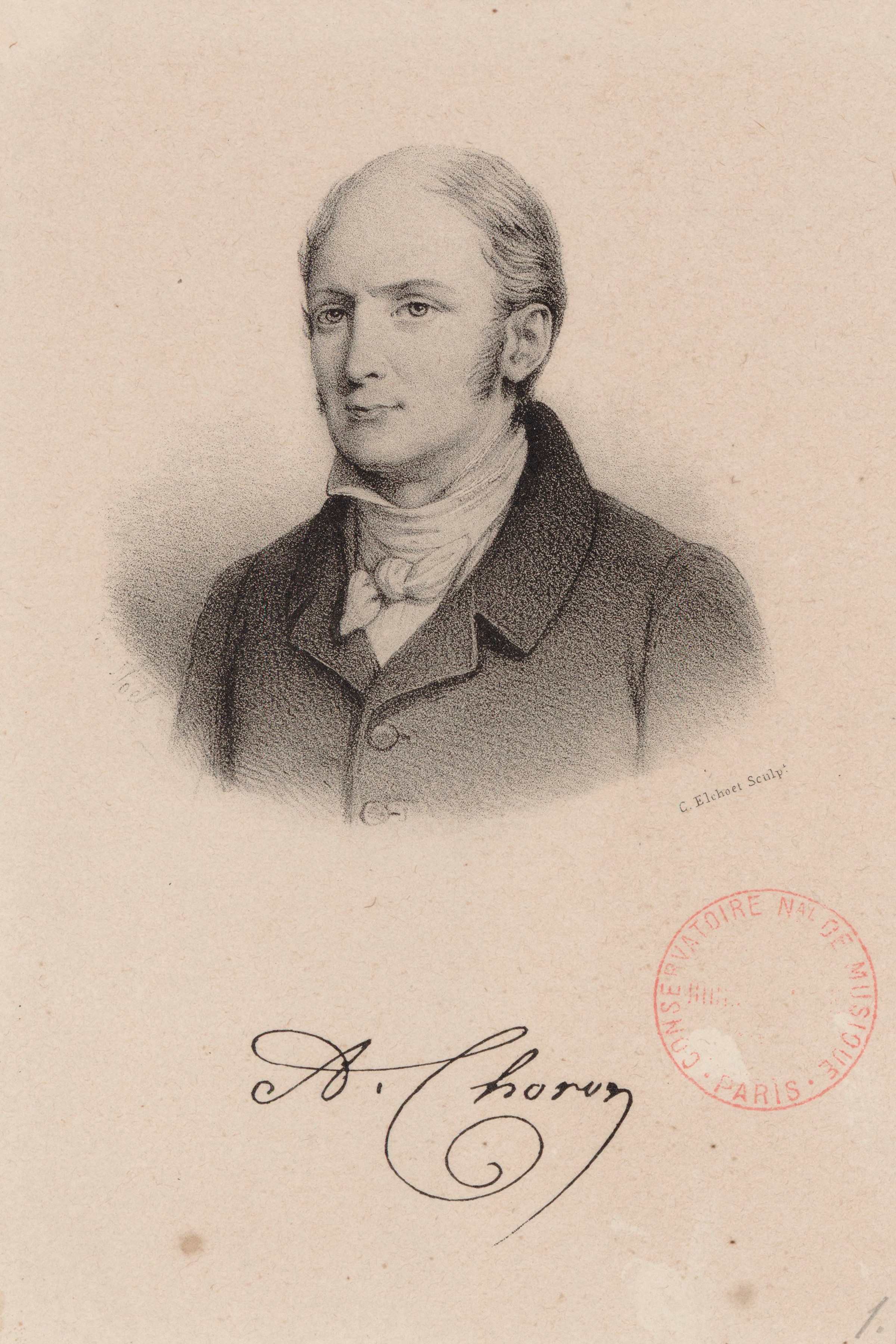 Depicted person: Alexandre-Étienne Choron